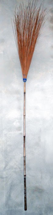 Size comparison broom chair/ขนาดไม้กวาดเปรียบเทียบกับขนาดเก้าอี้ยาว